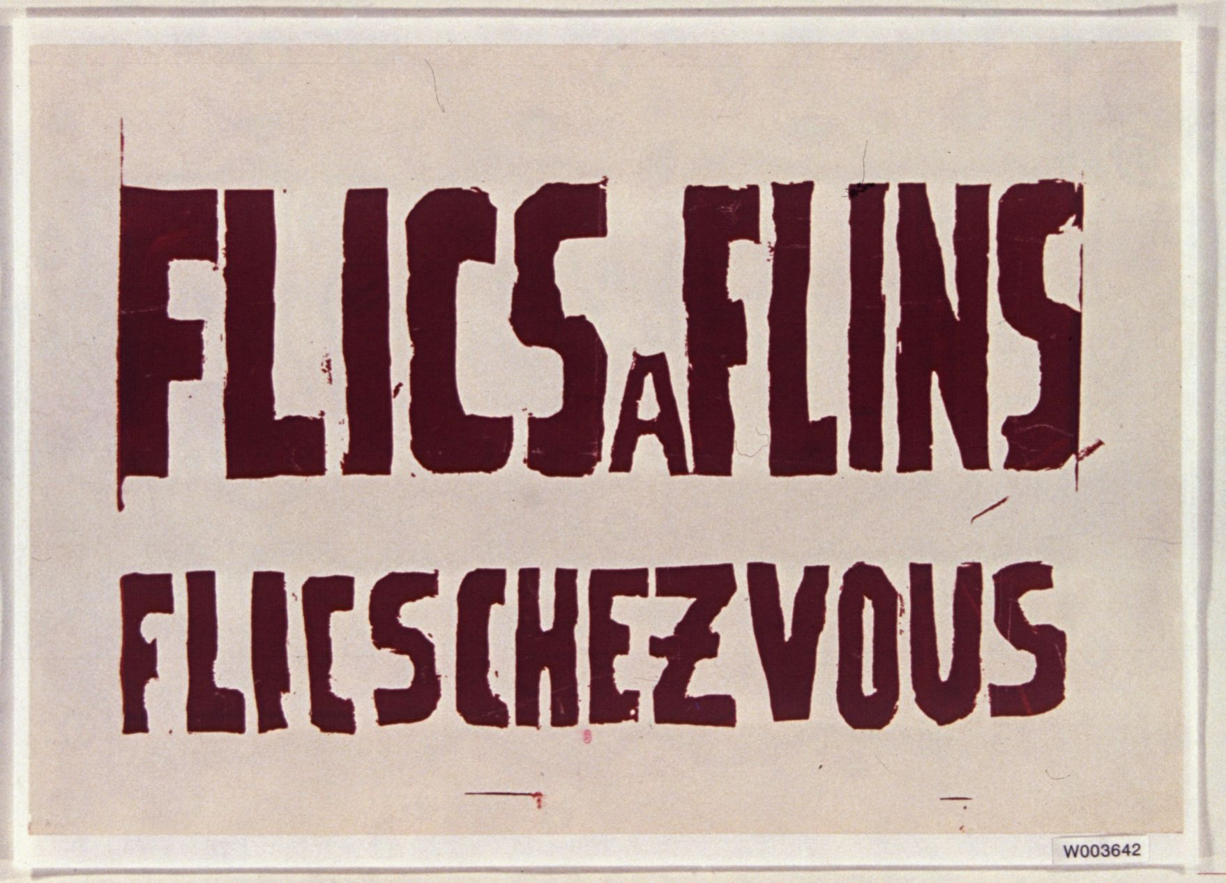 From the catalogue of anexhibition on French May 1968 protest posters: Les Affiches de mai 68 ou l'Imagination graphique. This exhibition was held at the Bibliothèque nationale de France (Paris) from 17 February till 31 March 1982. Permalink to the full scanned catalogue